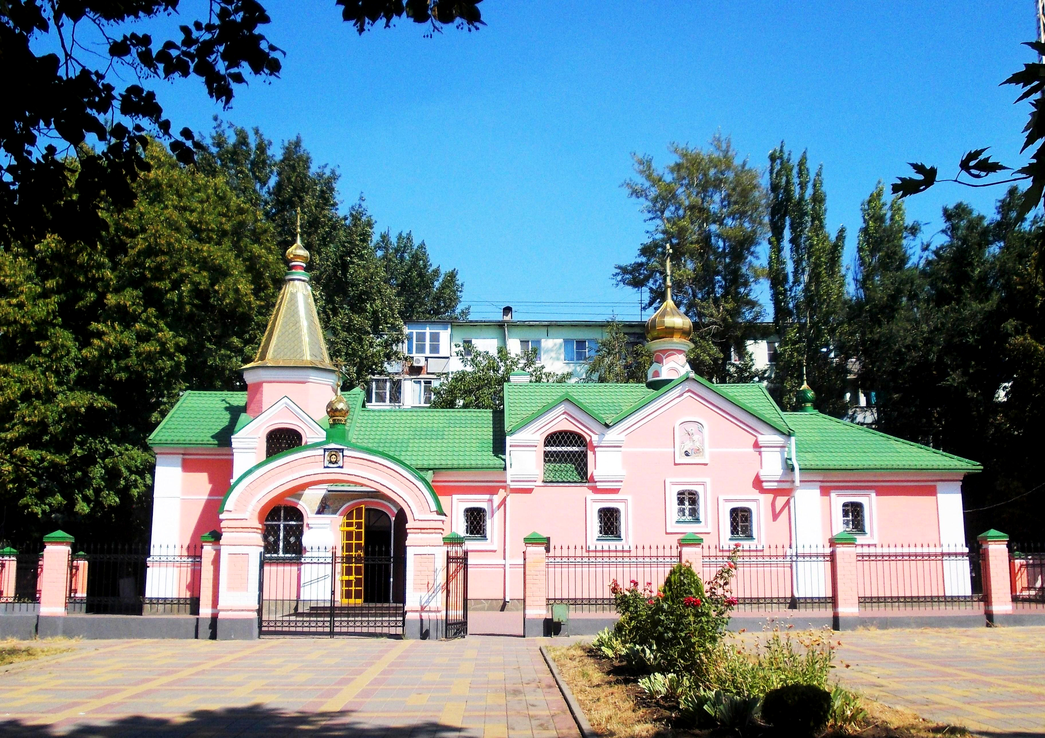 Churches in Rostov-on-Don